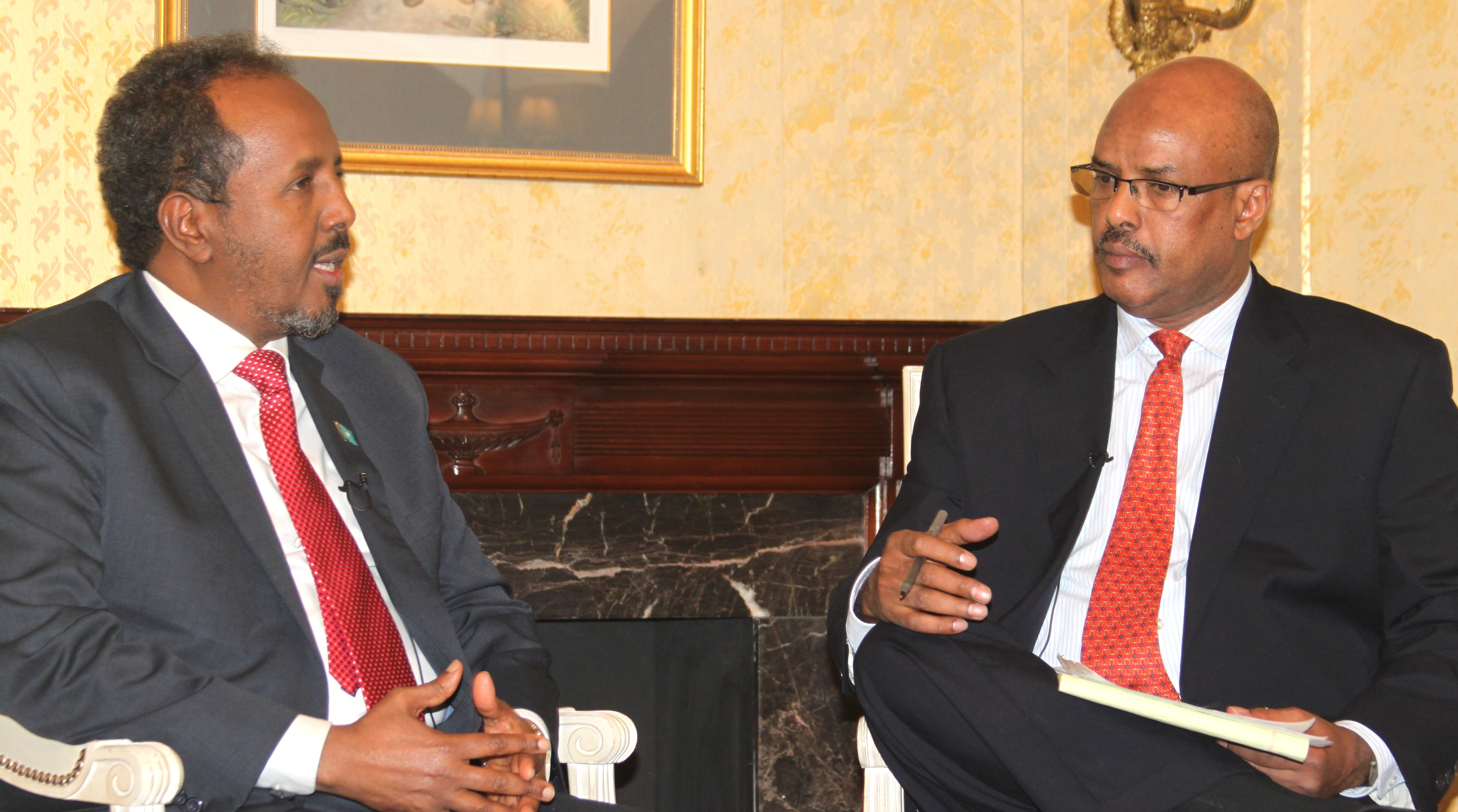 President of Somalia Hassan Sheikh Mohamud addressing the Somali press with Voice of America.